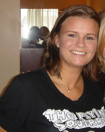 Crop of Kerry Katona with Rachael Hopper/originally Uploaded by Tabercil/Author: HeatRadioCelebs Derivative of File:Kerry Katona with Rachael Hopper.jpg (crop)